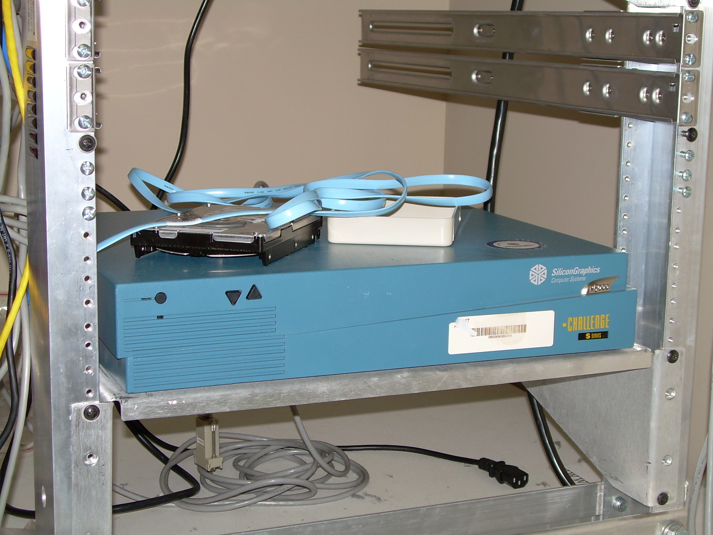 An SGI Challenge S server on a shelf in a rack.